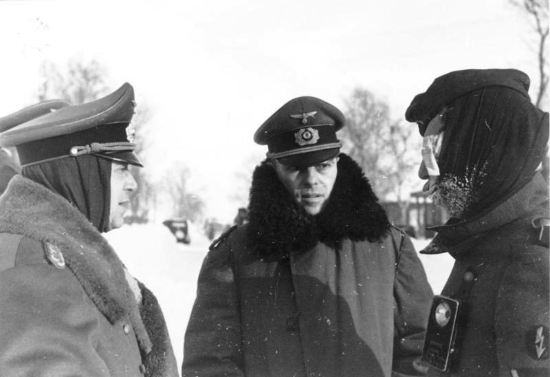 November 1941, General der Infanterie Richard Ruoff (left), commander of the 4th Panzer Armee, and his chief od Staff, Generalmajor (at that time equivalent to Brigadier) Hans Röttiger (center), speaking with a wounded soldier of a communications unit, amidst a snowy landscape.